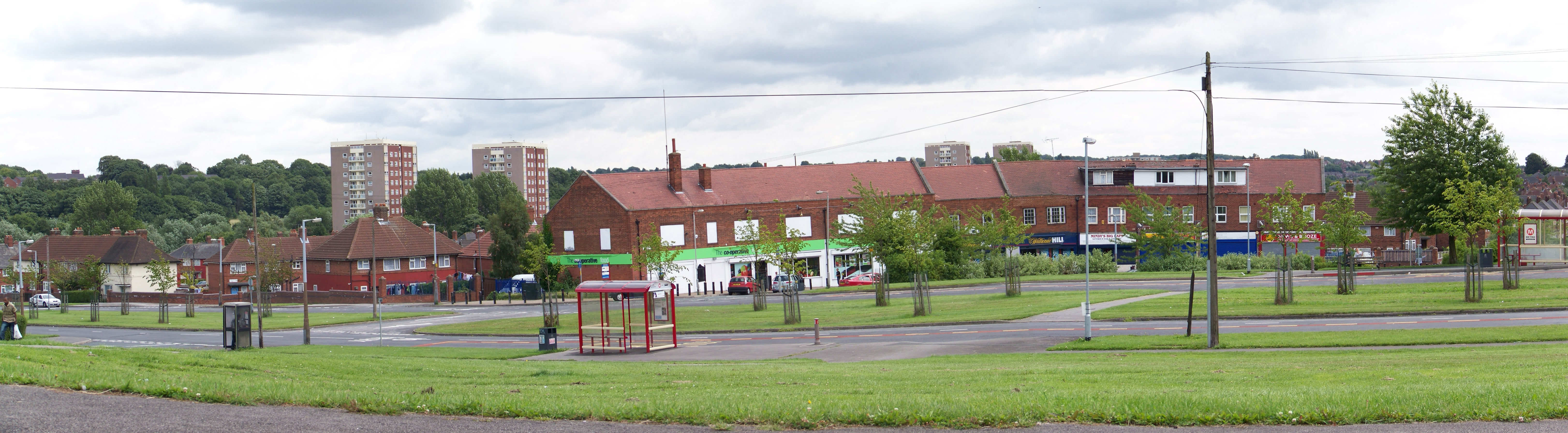 A panoramic image of Coldcotes Circus, Gipton, Leeds, West Yorkshire. Taken on the afternoon of the 18th July 2009.